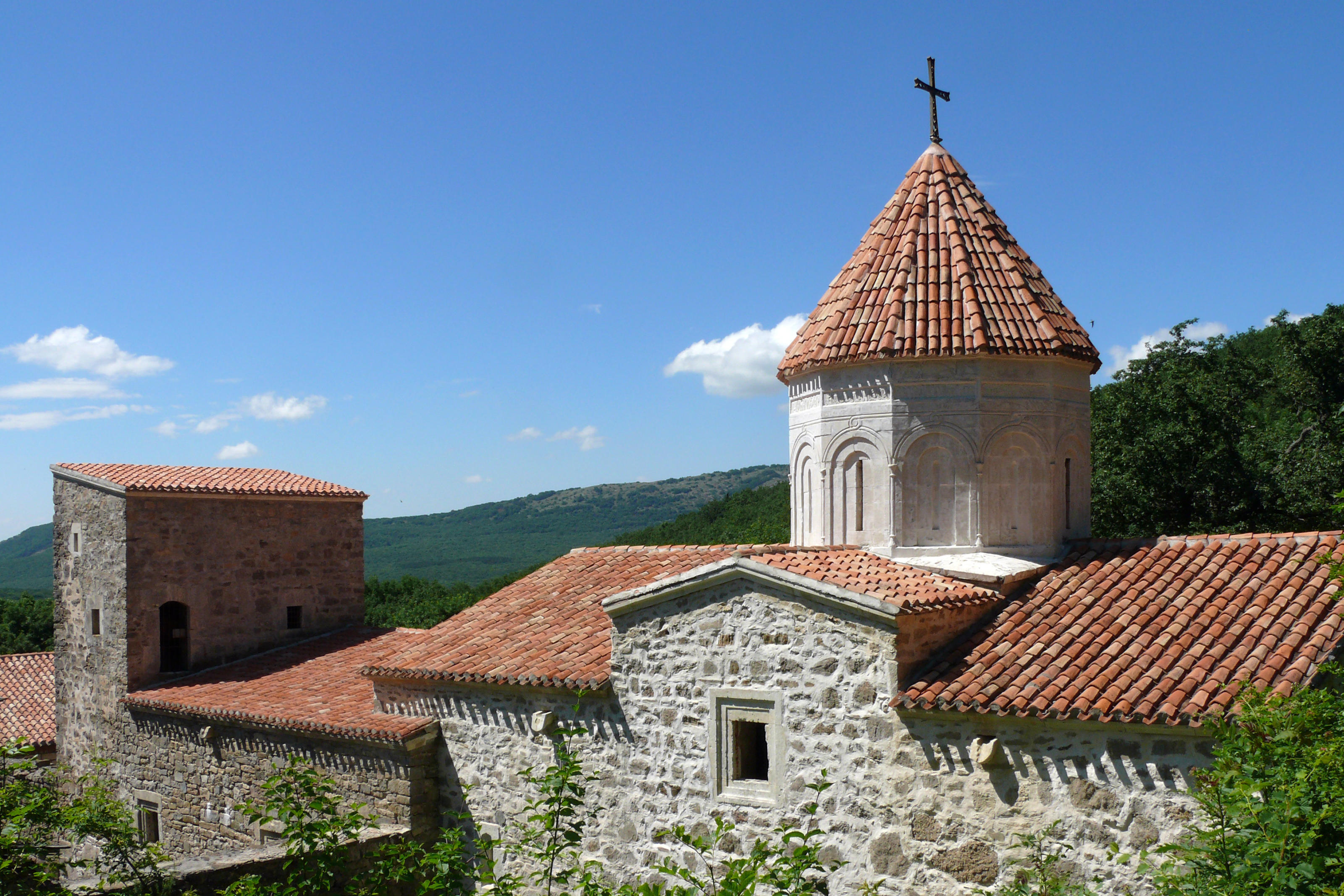 Staryi Krym_Armenian monastery of Surb Khach